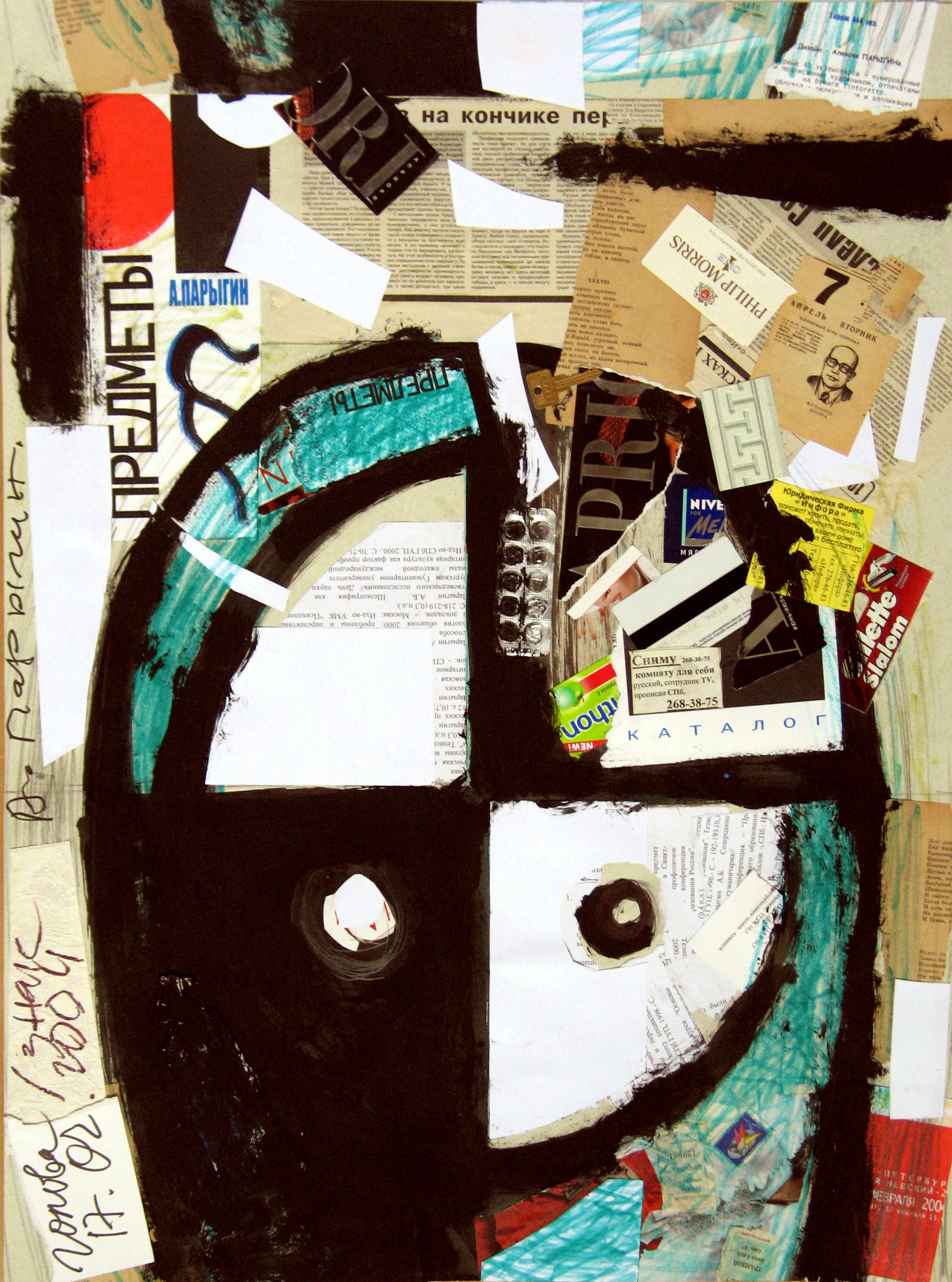 Artist Self Portrait